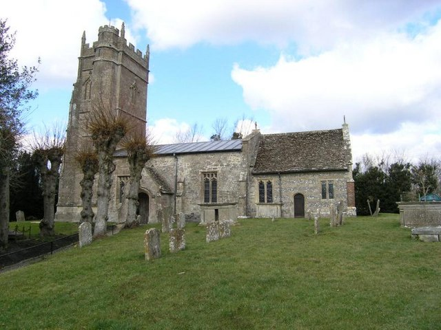 Marden, Wilts, All Saints Church. A complete view of the church